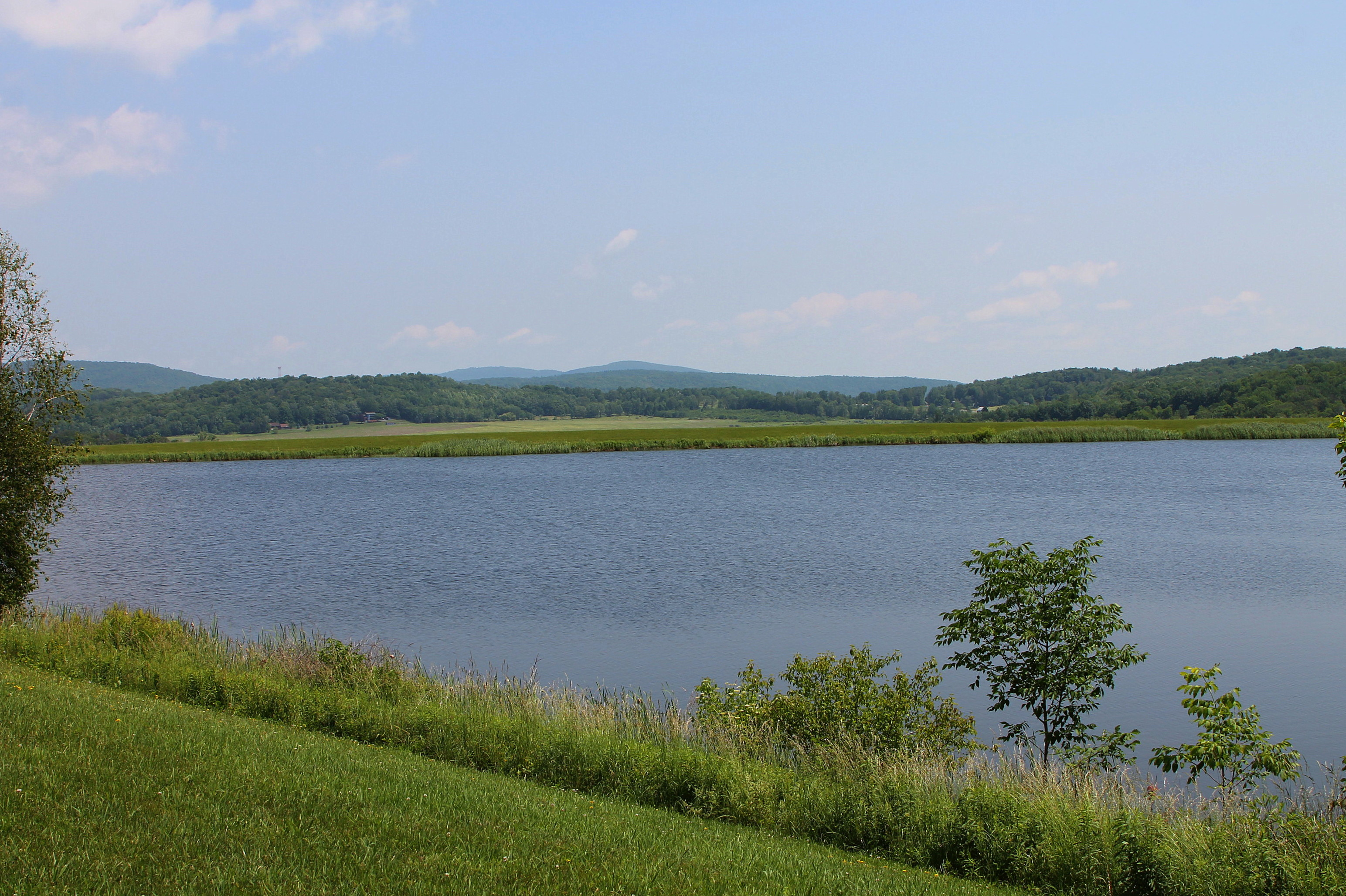 Scenery of Monroe Township, Wyoming County, Pennsylvania, with a lake in the foreground and mountains in the background.